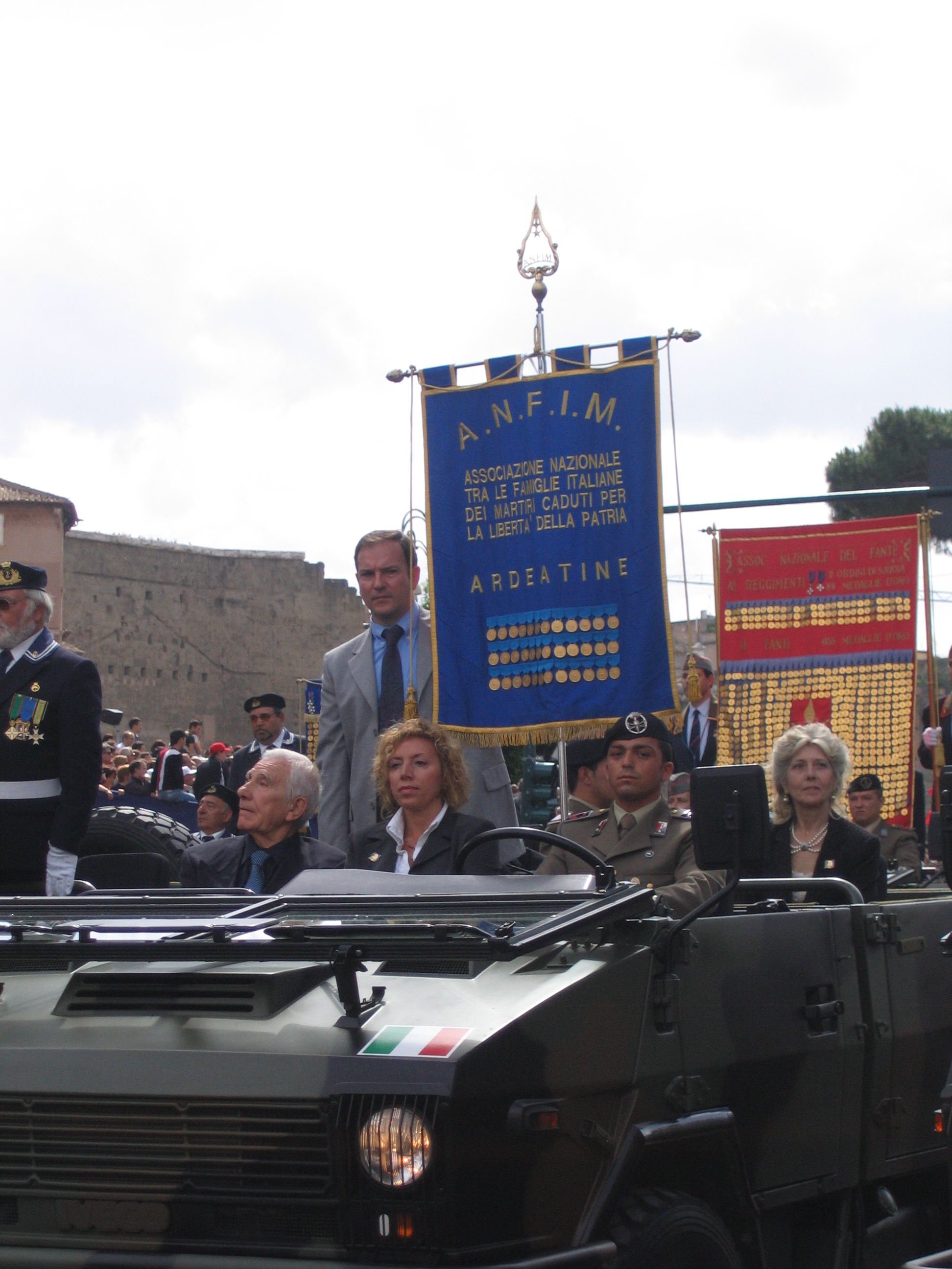 Gonfalone of the Association of Victims of the Fosse Ardeatine